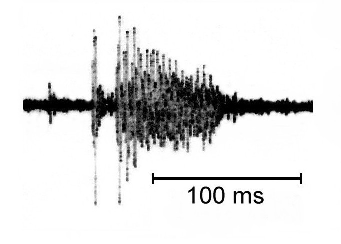 Oscillogram of a pulse group of a mating call. The call was recorded on March 7, 2003 on Lake Dojran (Macedonia, Greece) at 15.2 °Celsius water temperature on tape.